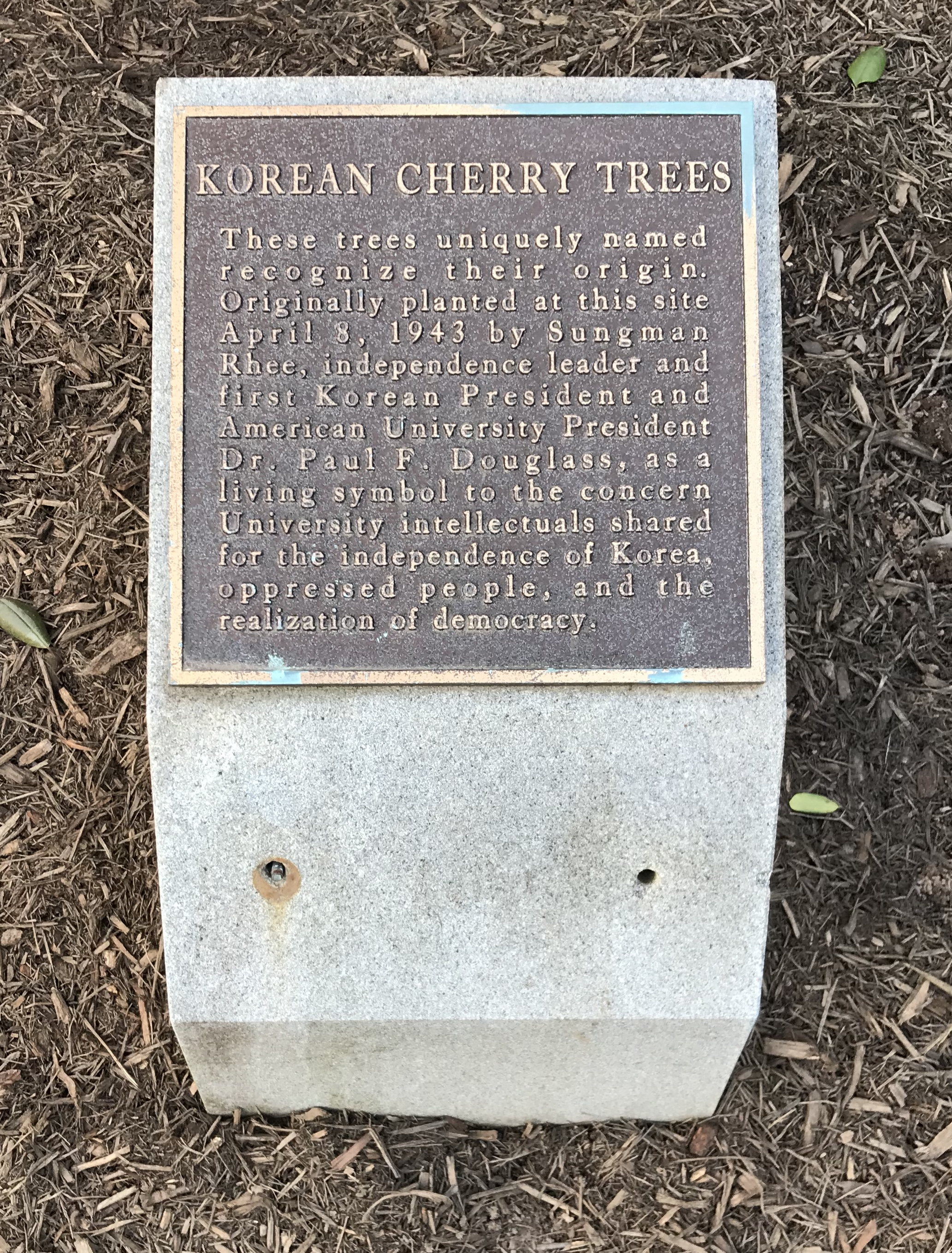 KOREAN CHERRY TREE These trees uniquely named recognize their origin. Originally planted at this site April 8, 1943 by Sungman Rhee, independence leader and first Korean President and American University President Dr. Paul F. Douglass, as a living symbol to the concern University intellectuals shared for the independence of Korea, oppressed people, and the realization of democracy.